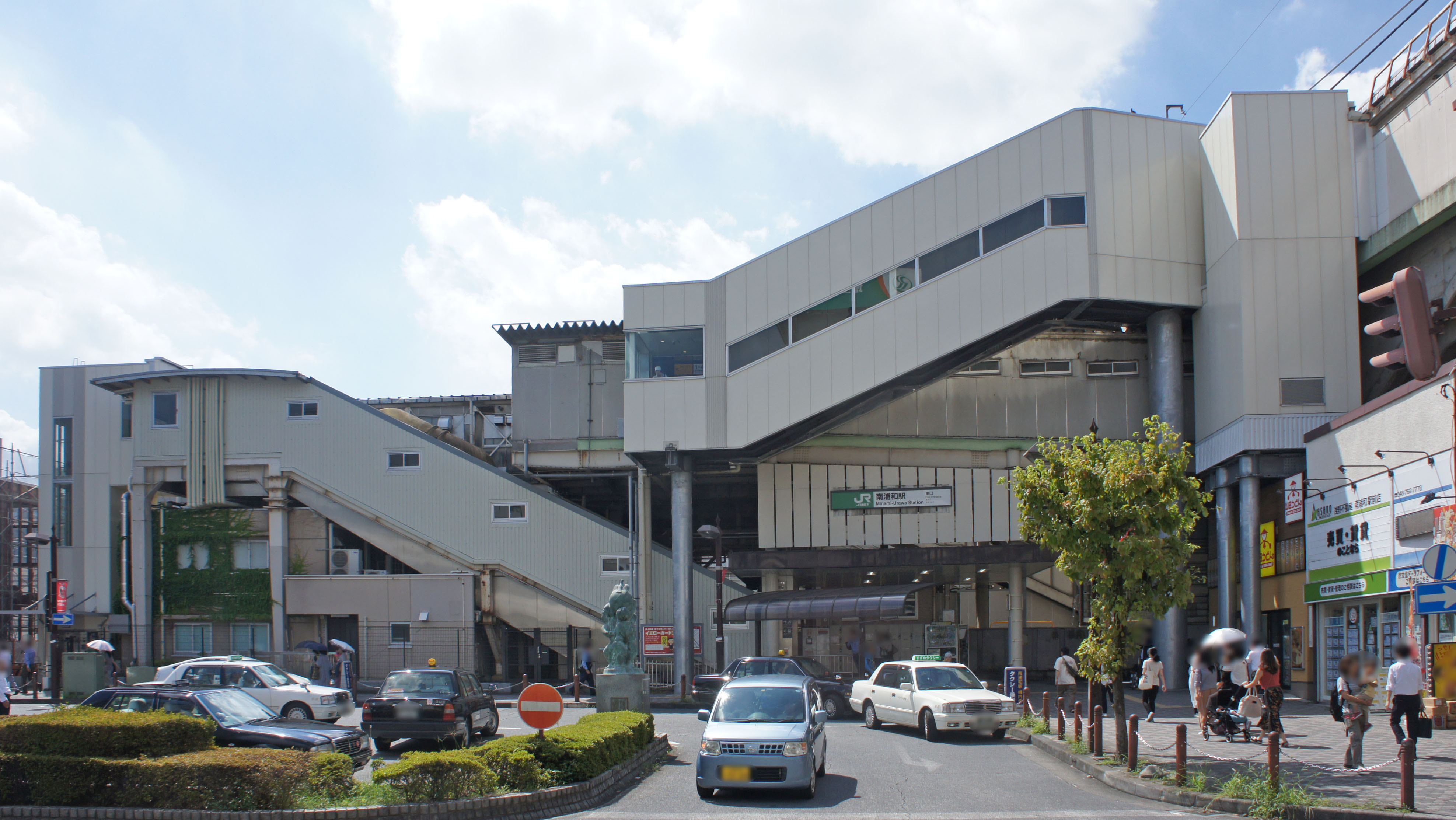 East Exit of JR Minami-Urawa Station